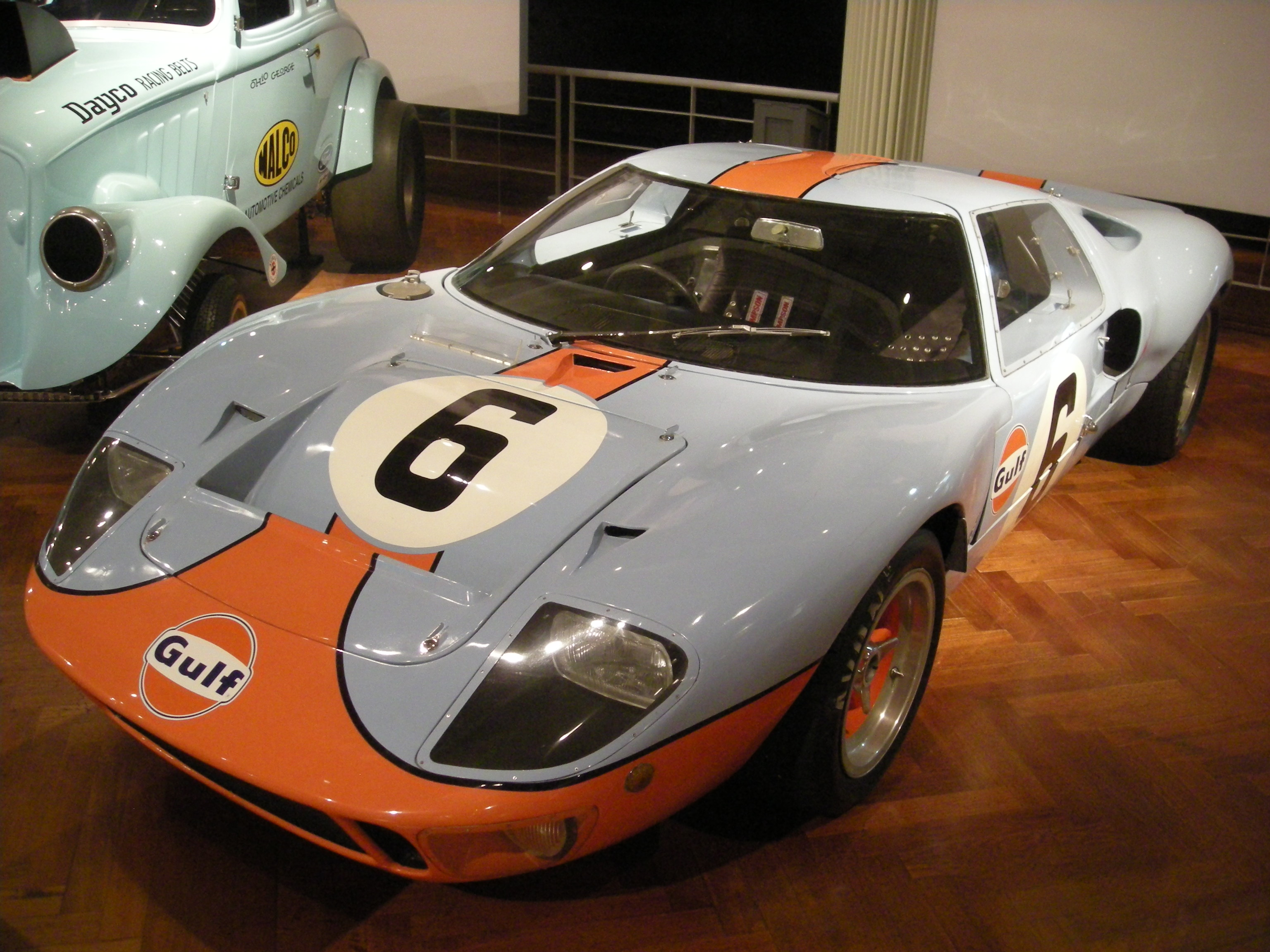 A 1968 Ford Mark I on display at the Henry Ford Museum in Dearborn, Michigan (United States).